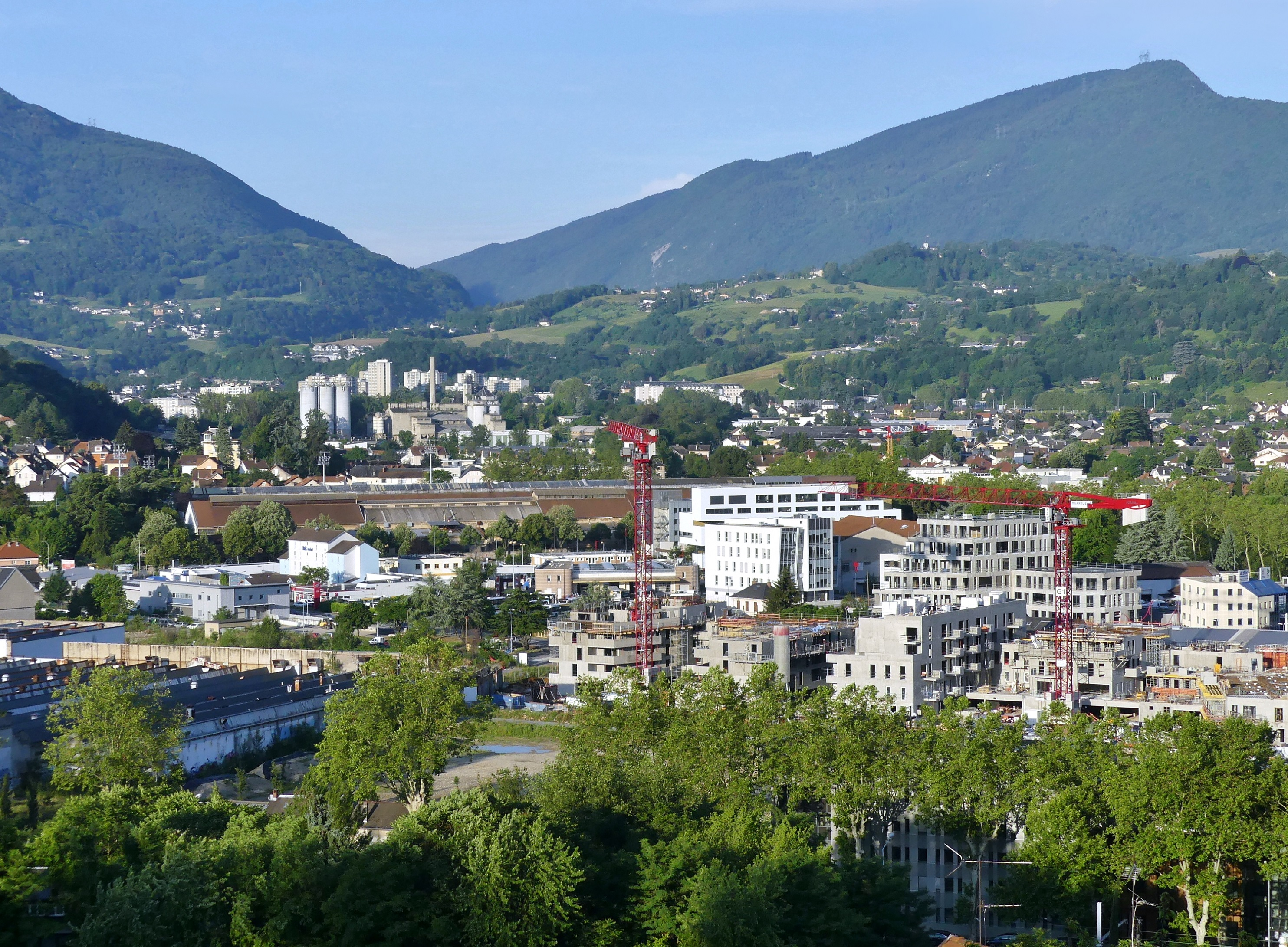 Sight of the Grand Verger industrial zone, in 2019 i.e after the demolitions of old industrial rights-of-way and during the construction of the new eco-friendly neighborhood, in Chambéry, Savoie, France.